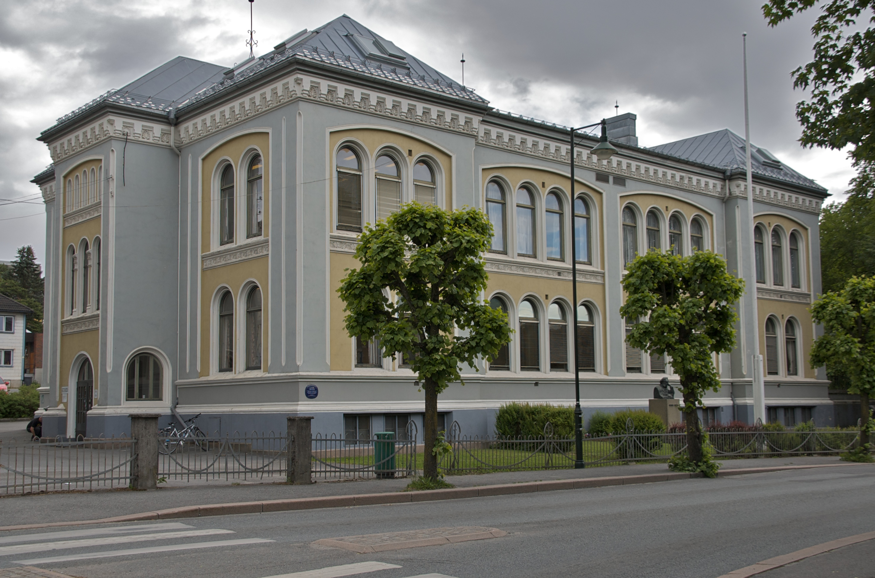 School building in Skien, Norway (Skien videregående skole, Brekkeby). The building is also known as Skien Latinskole.